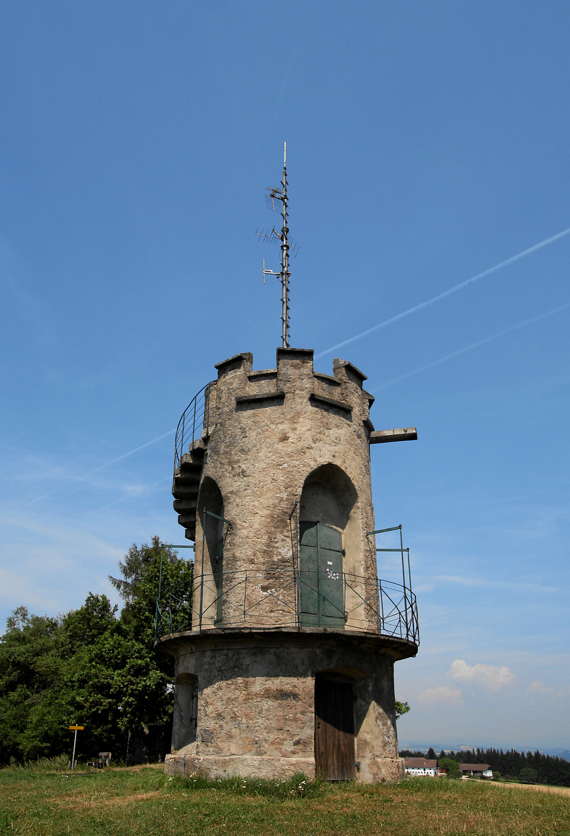 Observation tower on the Mayrhofberg in Stroheim, Upper Austria